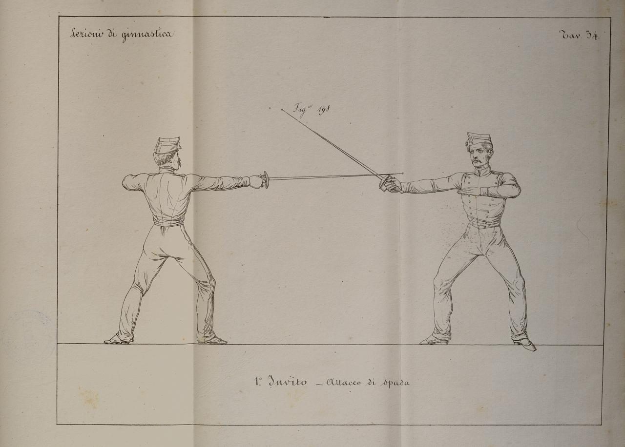 Istituzione di arte ginnastica per le truppe di fanteria di S. M. Siciliana. Niccolò Abbondati. Dalla Reale Tip. Militare., 1846